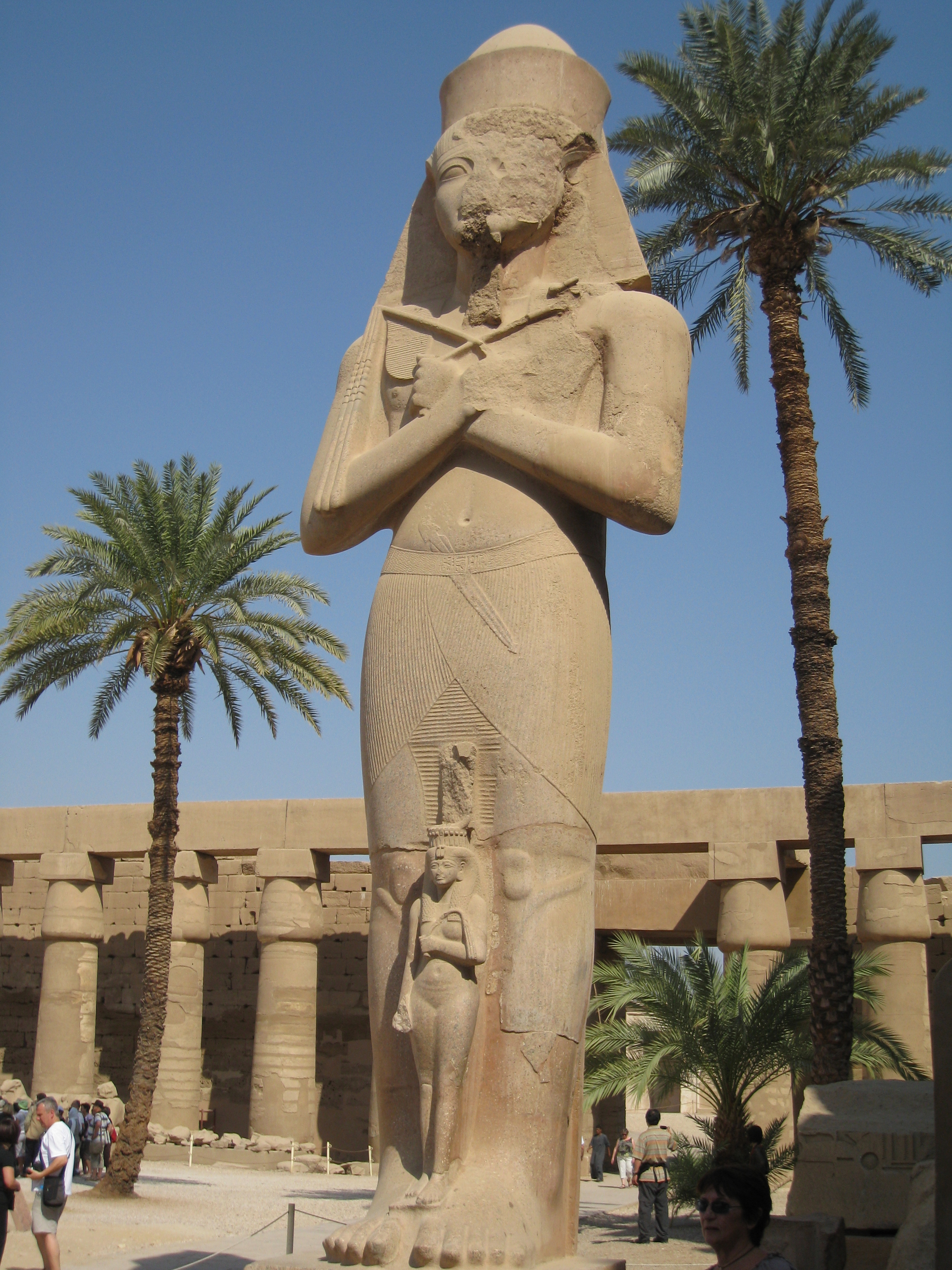 Colosus statue of Pinedjem I, Karnak, Egypt - A statue of Rameses II that has a smaller statue of his daughter Bent'anta between its feet